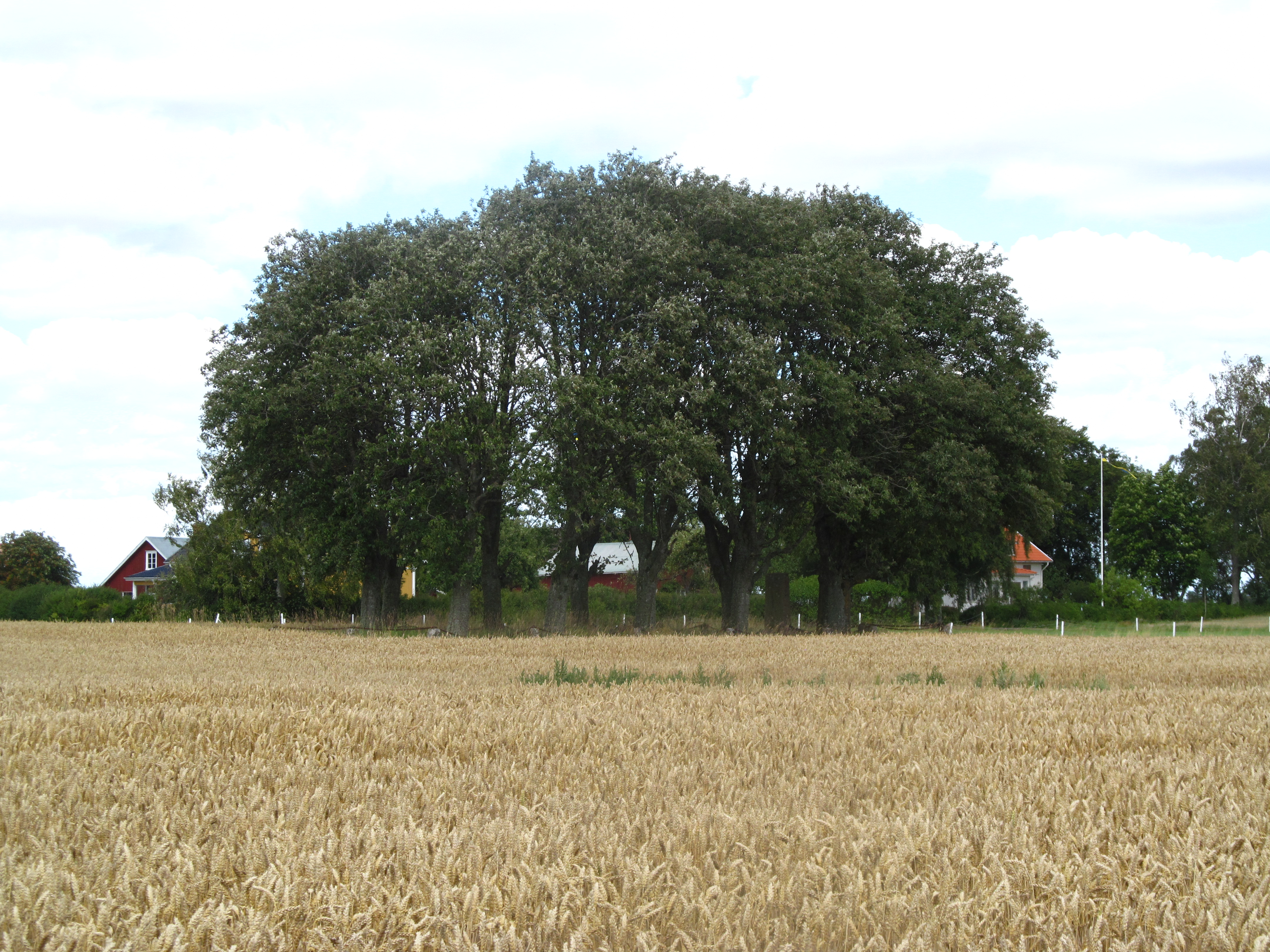 The location of Vässby old church. The area is located in the middle of a growing field and is enclosed by regular trees and standing stones bound together with chains. In the eastern part there is a memorial stone raised.